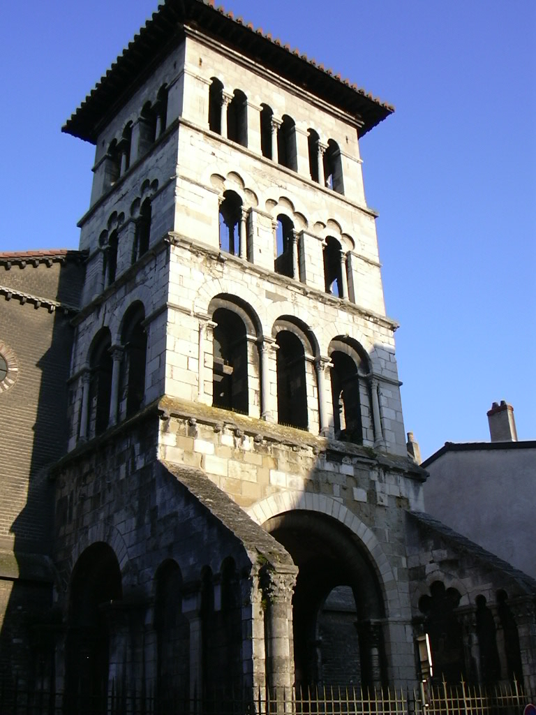 Church St. Pierre in Vienne